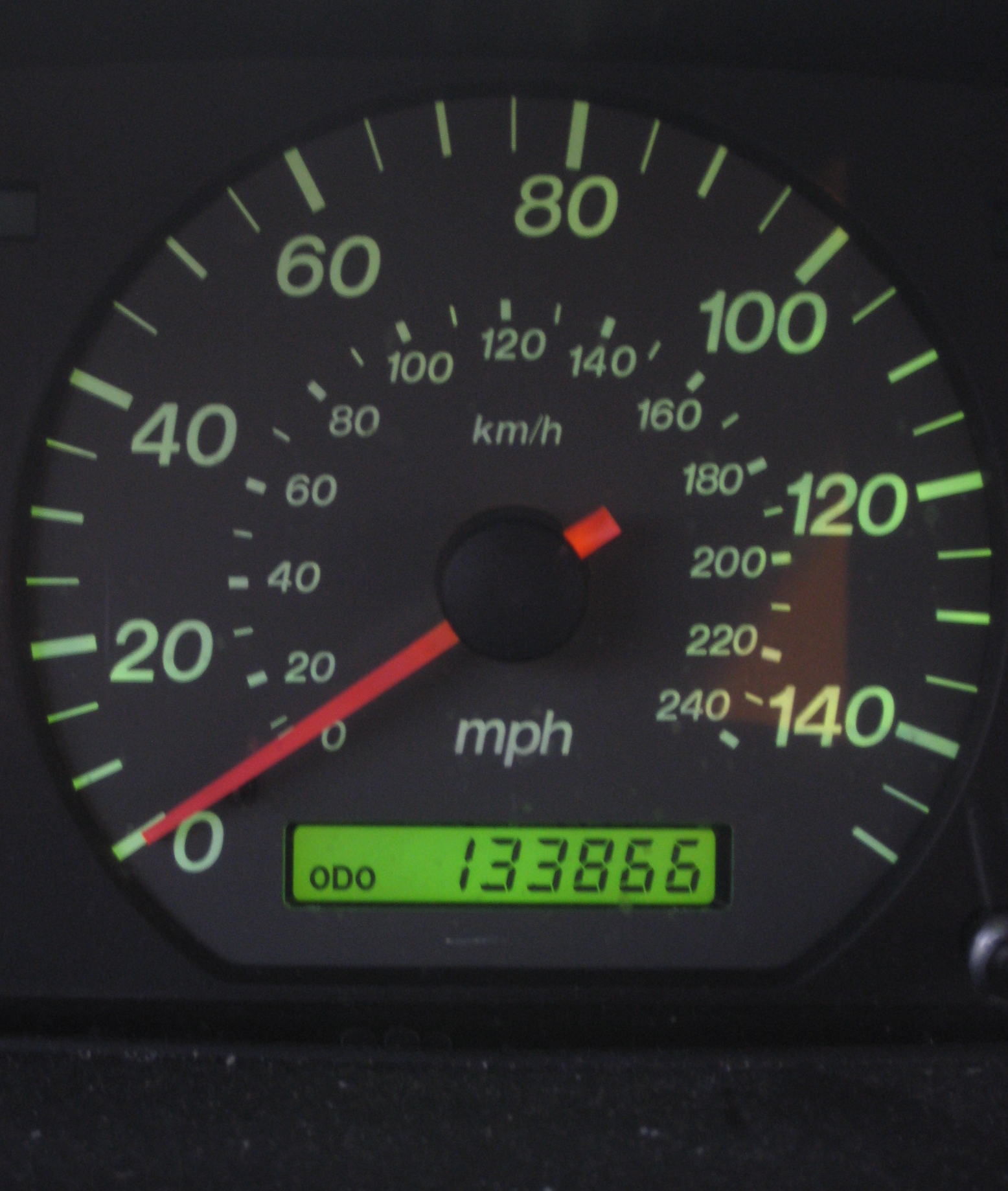 The speedometer (and odometer setting) from a 2000 Mazda 626.